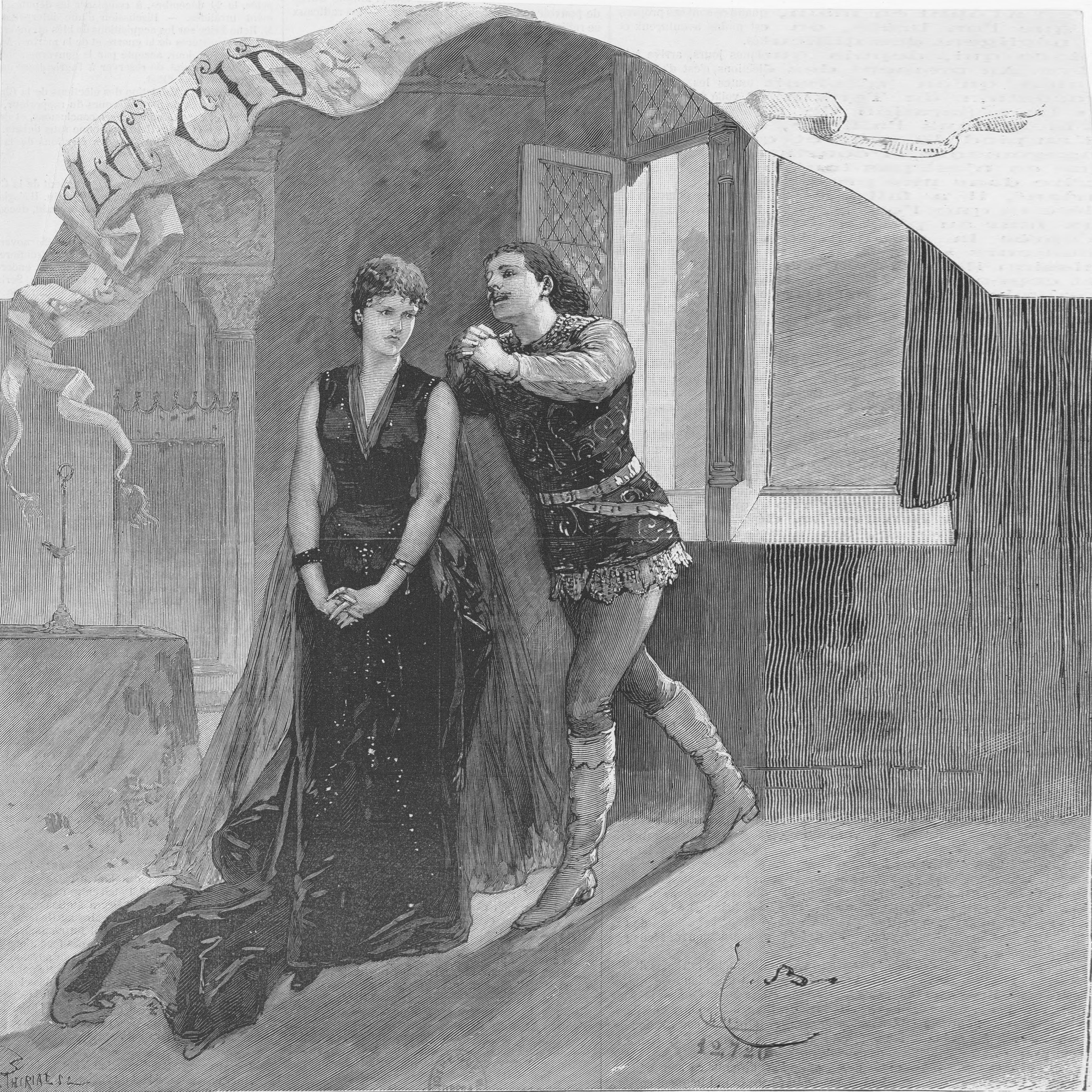 Jules Massenet - Le Cid - Le grand duo du 4e acte - Chimène (Mme Fidès-Devriés), Rodrigue (Jean de Reszké) although stated at gallica as act 4, it obviously depicts the beginning of act 3